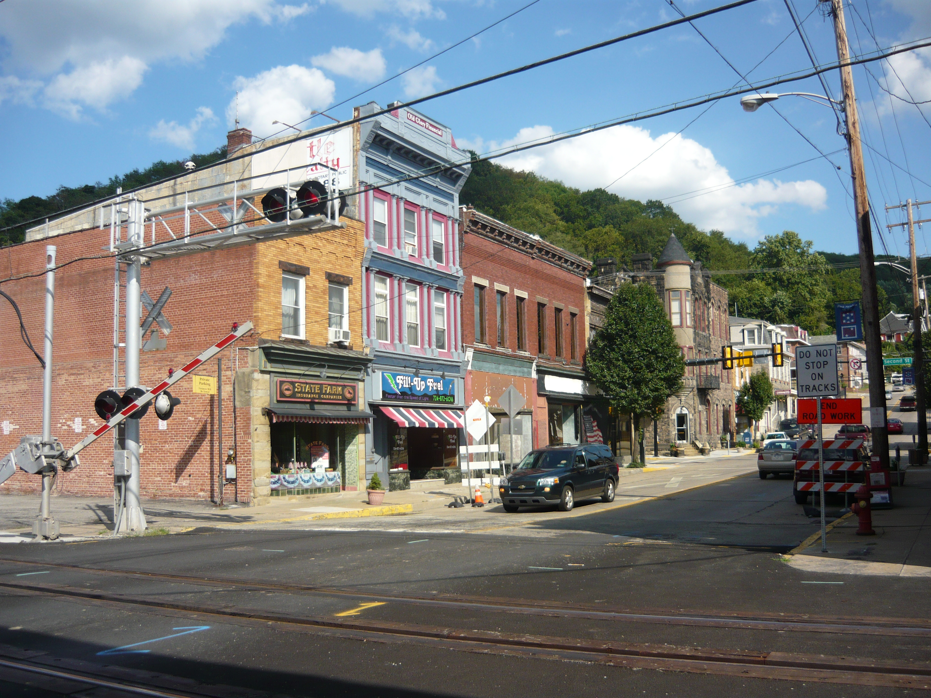 Looking eastward on East Main Street, West Newton, Pennsylvania.